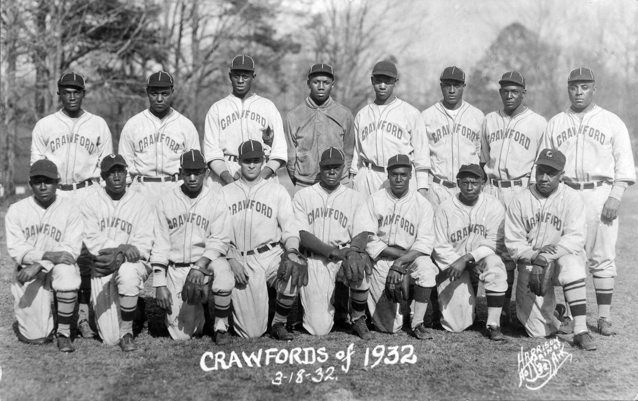 1932 Pittsburgh Crawfords. Standing: Benny Jones, L.D. Livingston, Satchel Paige*, Josh Gibson*, Ray Williams, Walter Cannady, Cy Perkins, Oscar Charleston*. Kneeling: Sam Streeter, Chester Williams, Harry Williams, Harry Kincannon, Henry Spearman, Jimmie Crutchfield, Bobby Williams, Ted "Double Duty" Radcliffe. (*Hall of Fame)